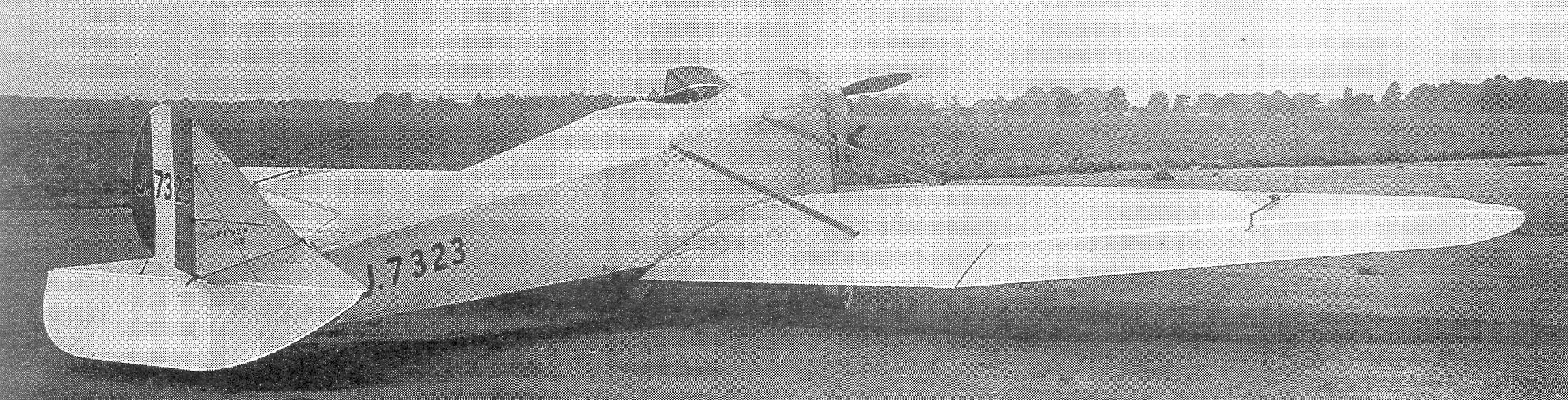 Parnall Pixie II, August 1924